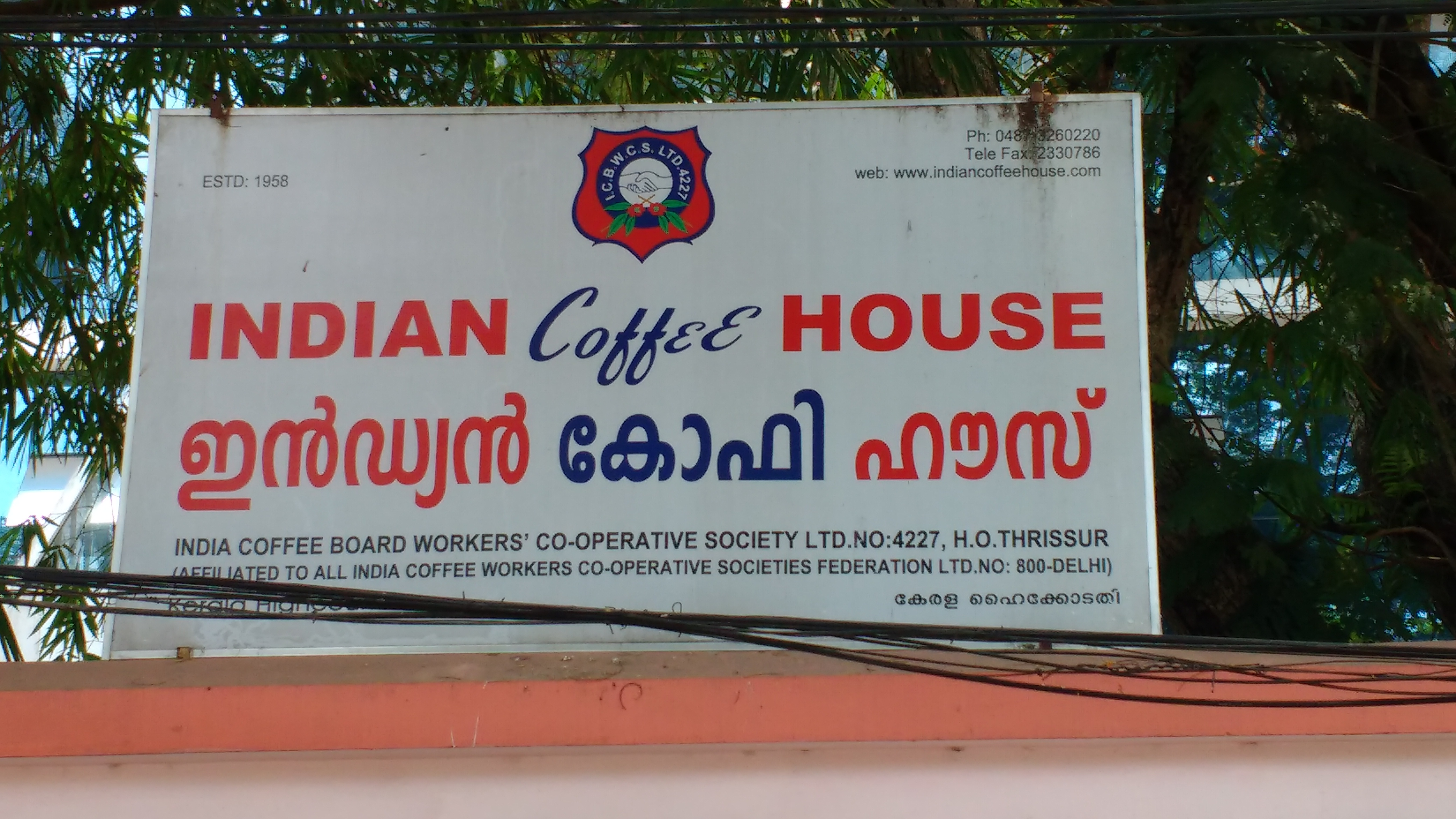 This is the image of Indian Coffee House at Ernakulam near High Court